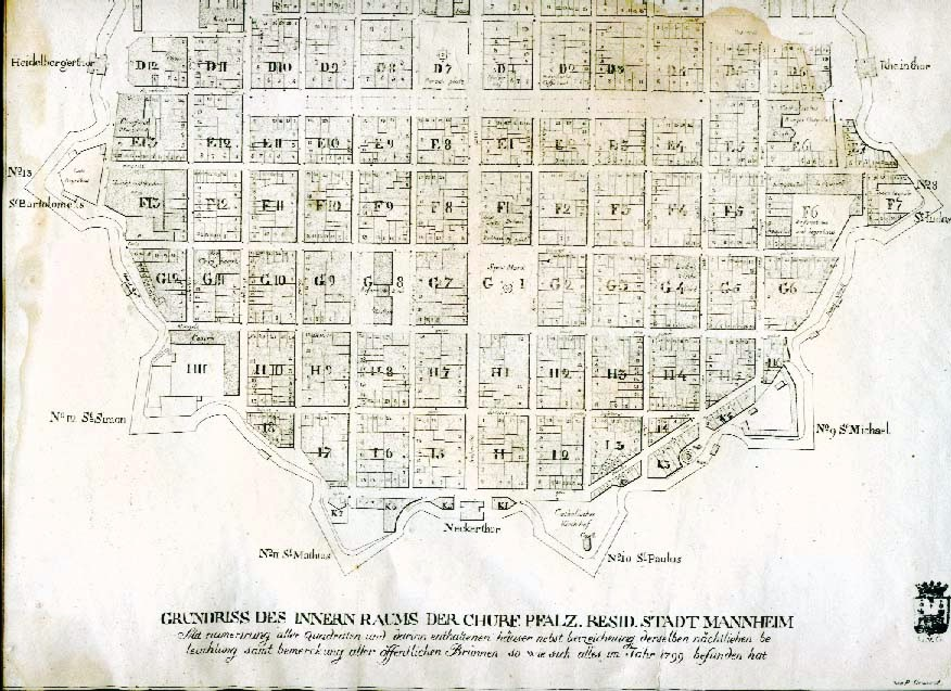 Groundplan of Mannheim ("Mannheimer Quadrate"), second section.Copper engraving.